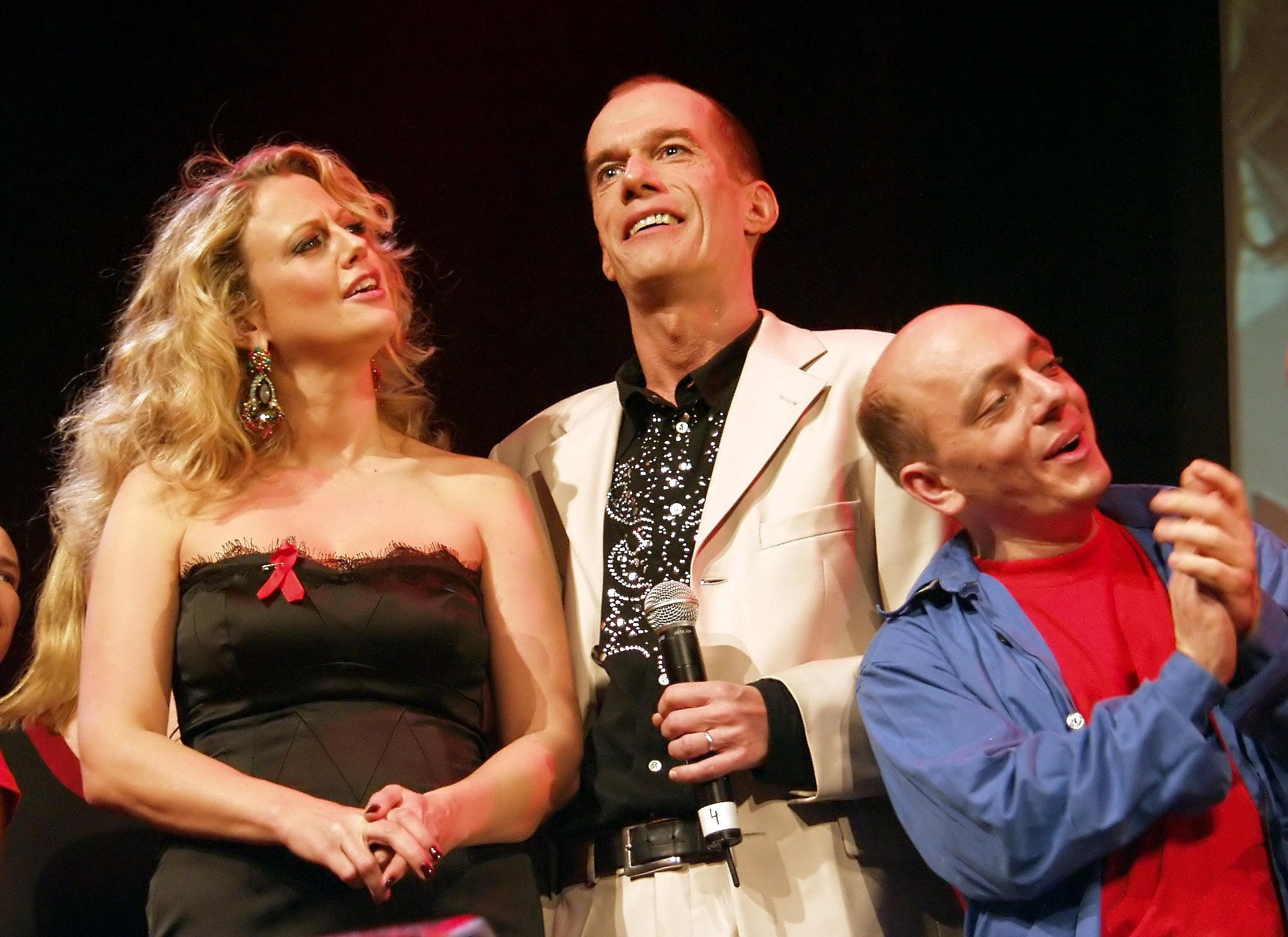 Barbara Schöneberger, Georg Uecker, Bernhard Hoëcker on the charity concert "Cover me" at E-Werk, Cologne, Germany.